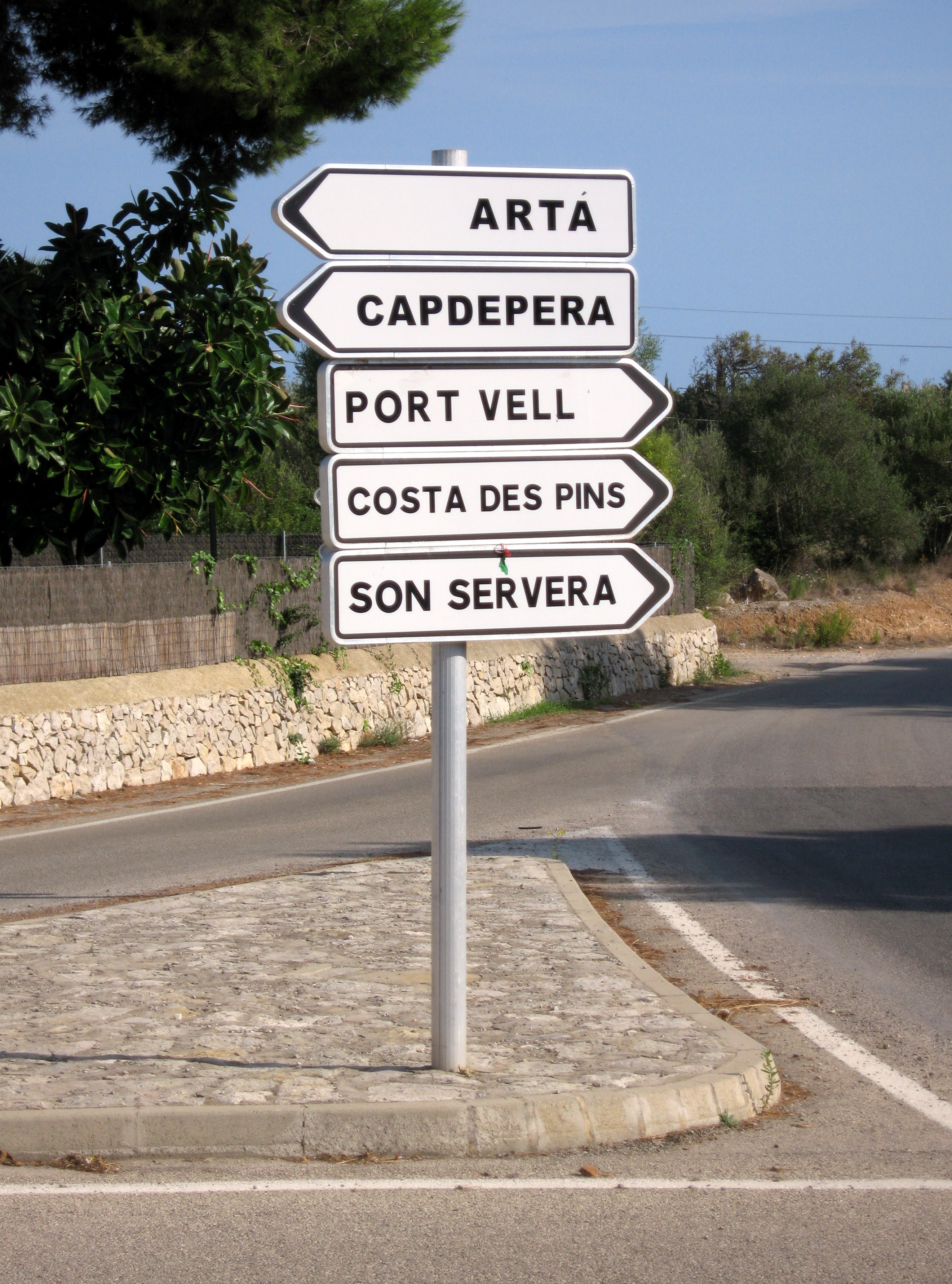 Sign to Costa des Pins on the Road M-4032, Son Servera, Mallorca, Spain